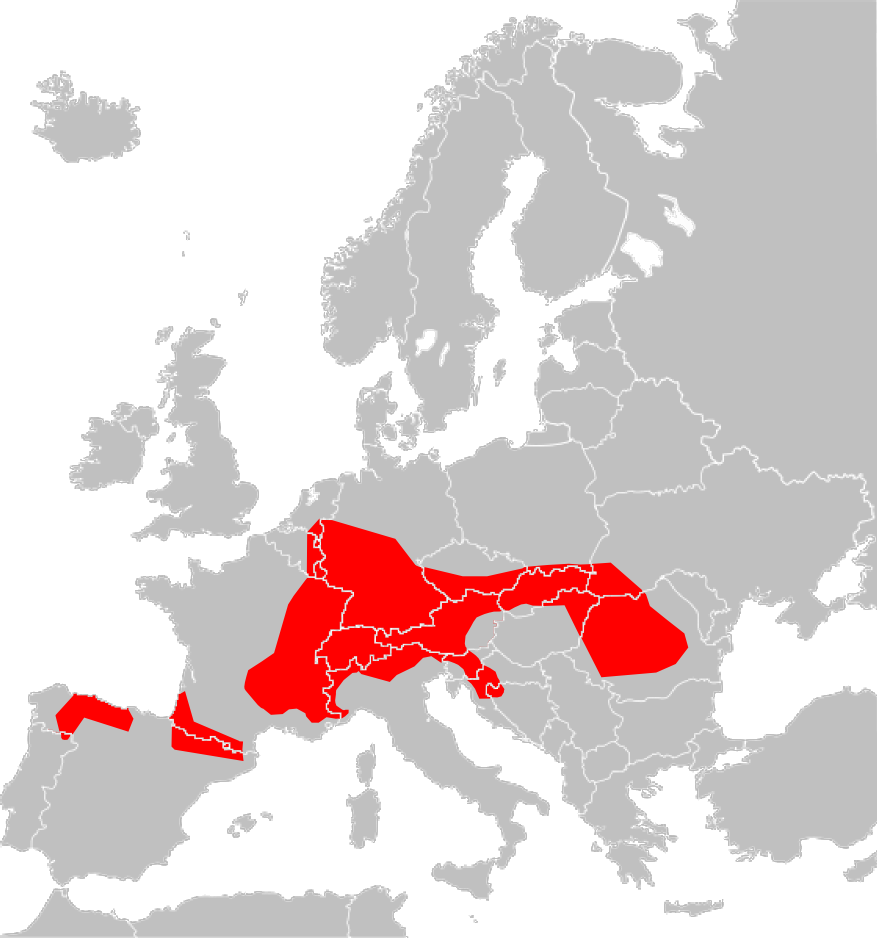 Arvicila scherman range map.